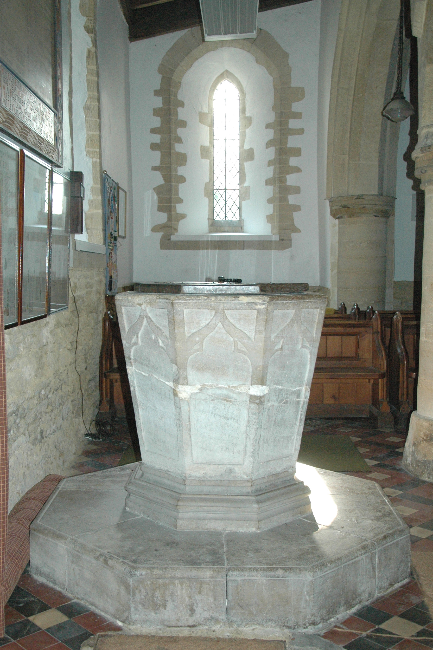 Church of England parish church of St Olave, Fritwell, Oxfordshire: 14th century Decorated Gothic baptismal font.